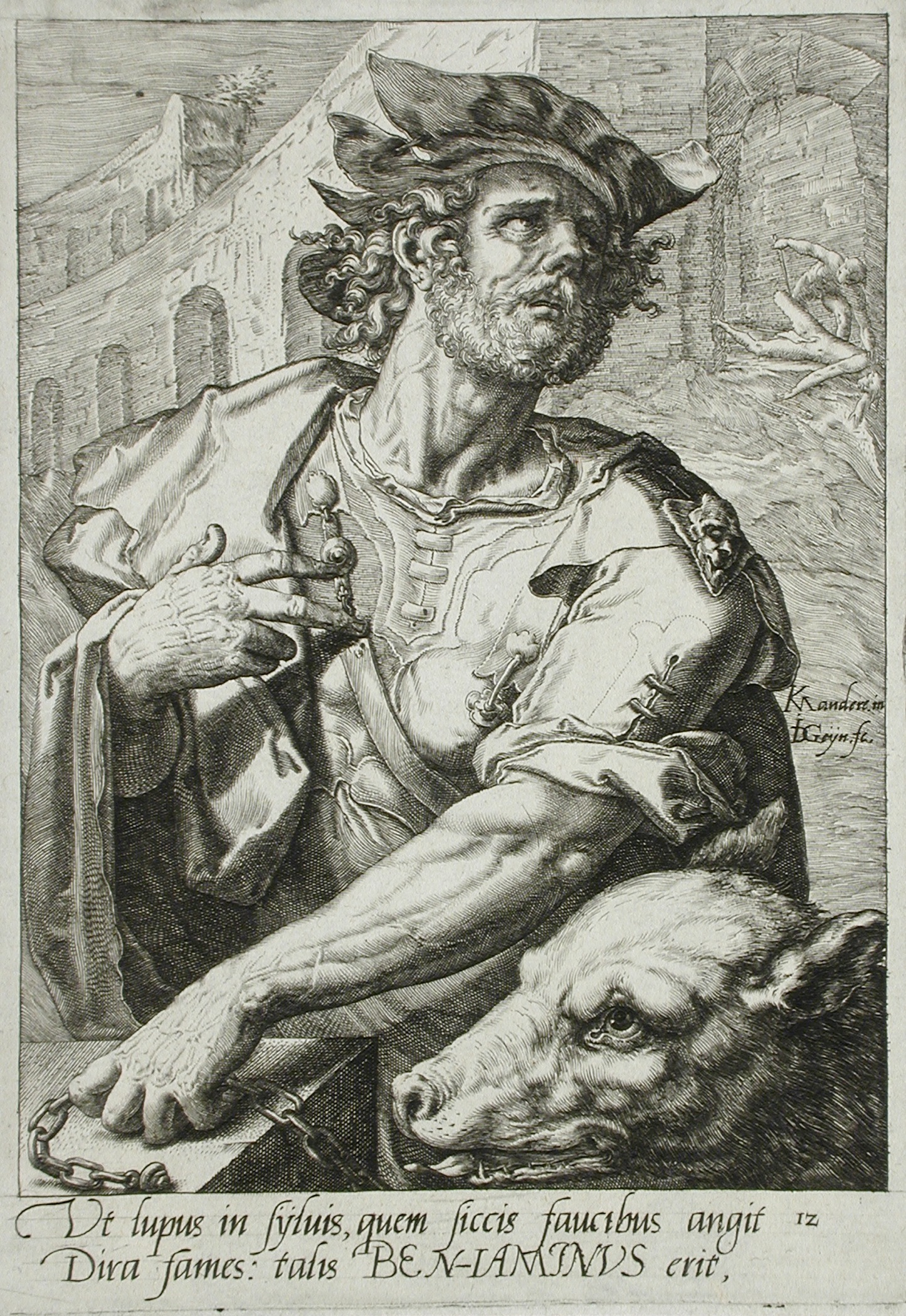 Holland, circa 1590 Series: The Twelve Sons of Jacob, pl. 12 Edition: First edition Prints; engravings Engraving Mary Stansbury Ruiz Bequest (M.88.91.296L) Prints and Drawings